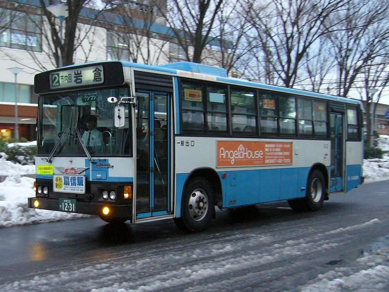 Hinomaru Bus car, Tottori.